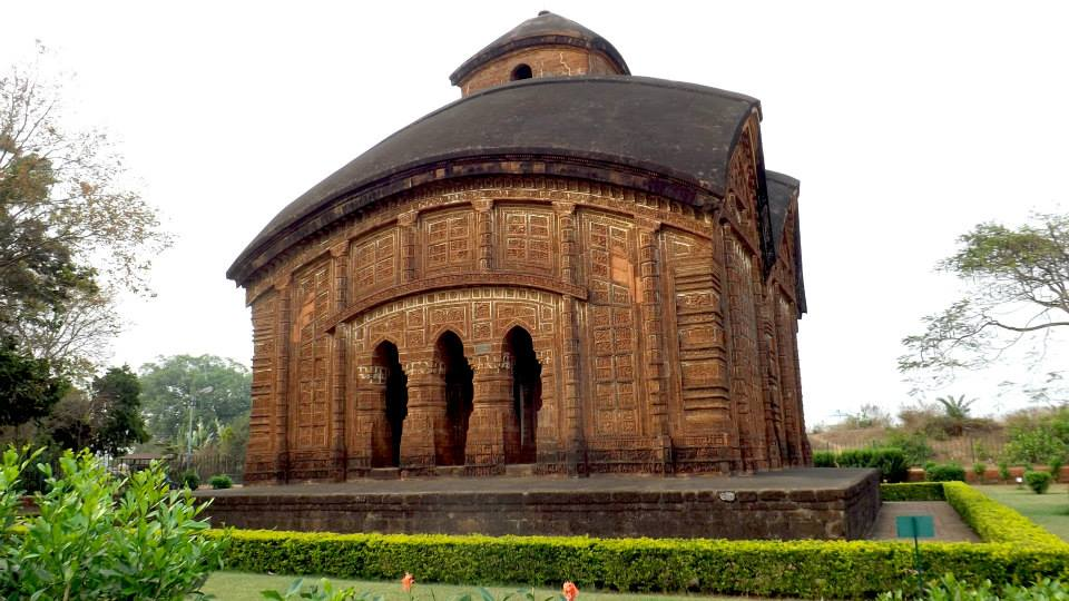 Built by King Raghunath Singha Dev II. The ornate terracotta carvings are set off by the roof in the classic chala style of Bengal architecture.